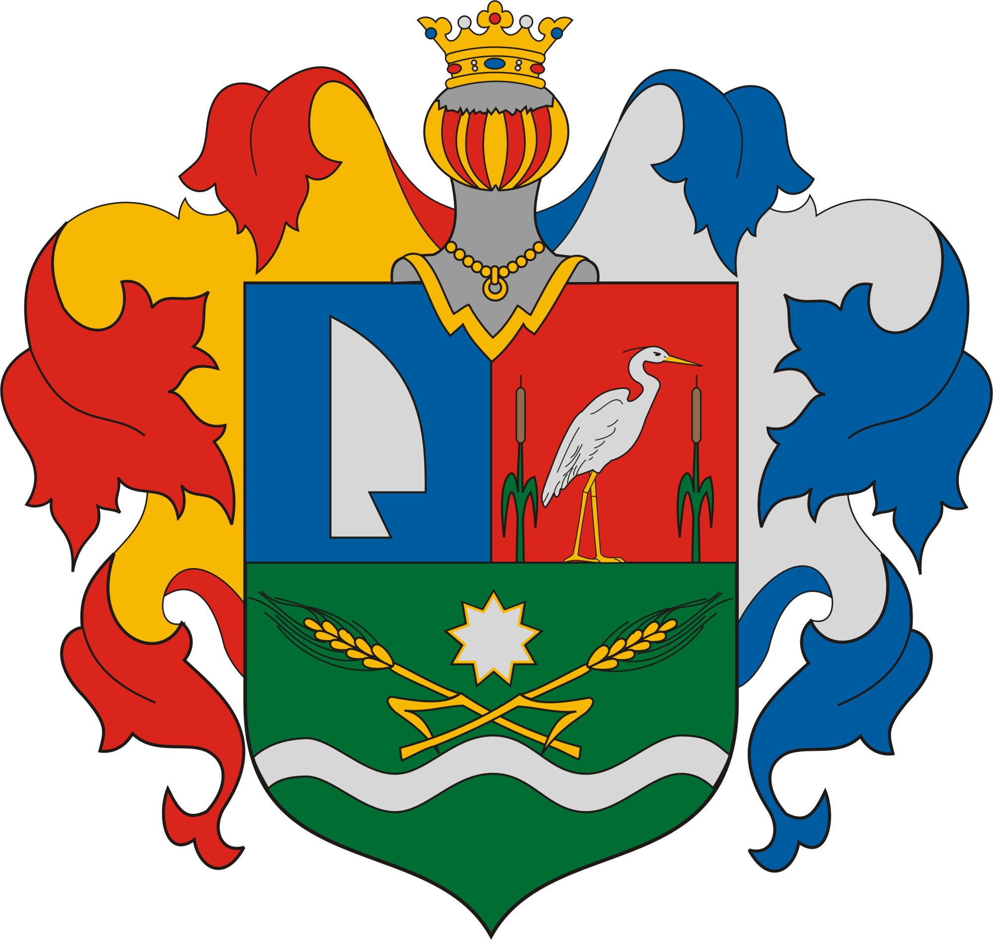 Coat of arms of Magyarhomorog, Hungary